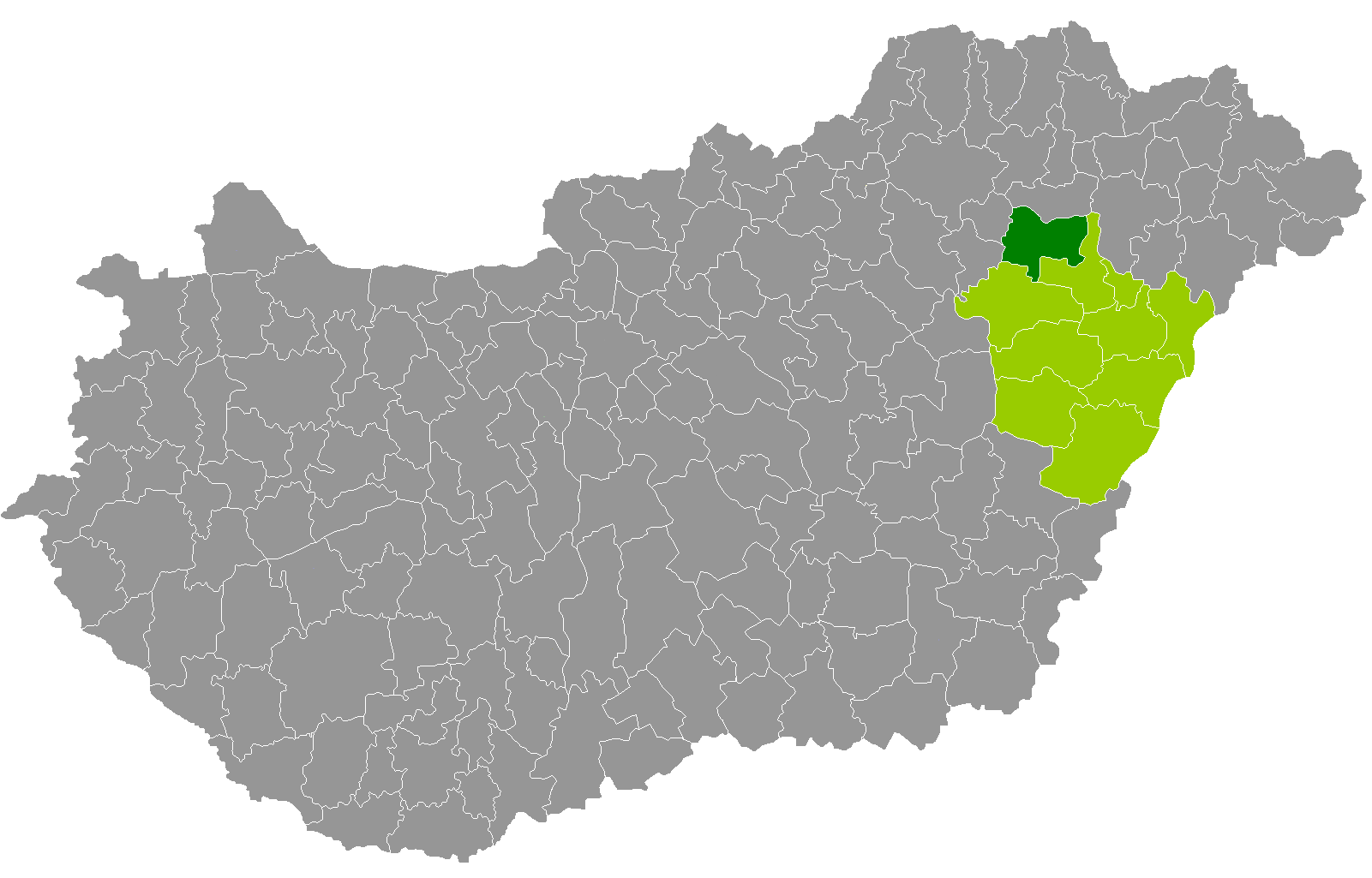 Location of Hajdúnánás District, Hajdú-Bihar, Hungary